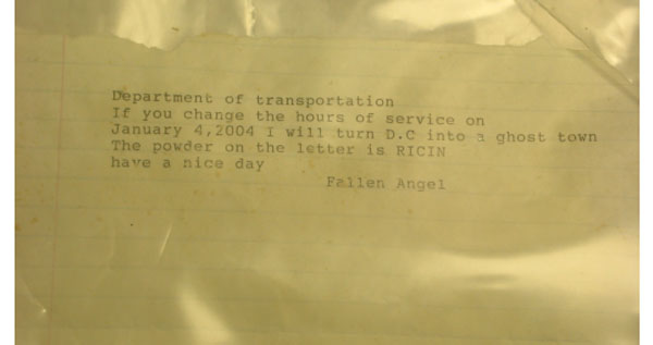 An image of the actual letter sent to the White House and discovered on November 6, 2003 to contain ricin.